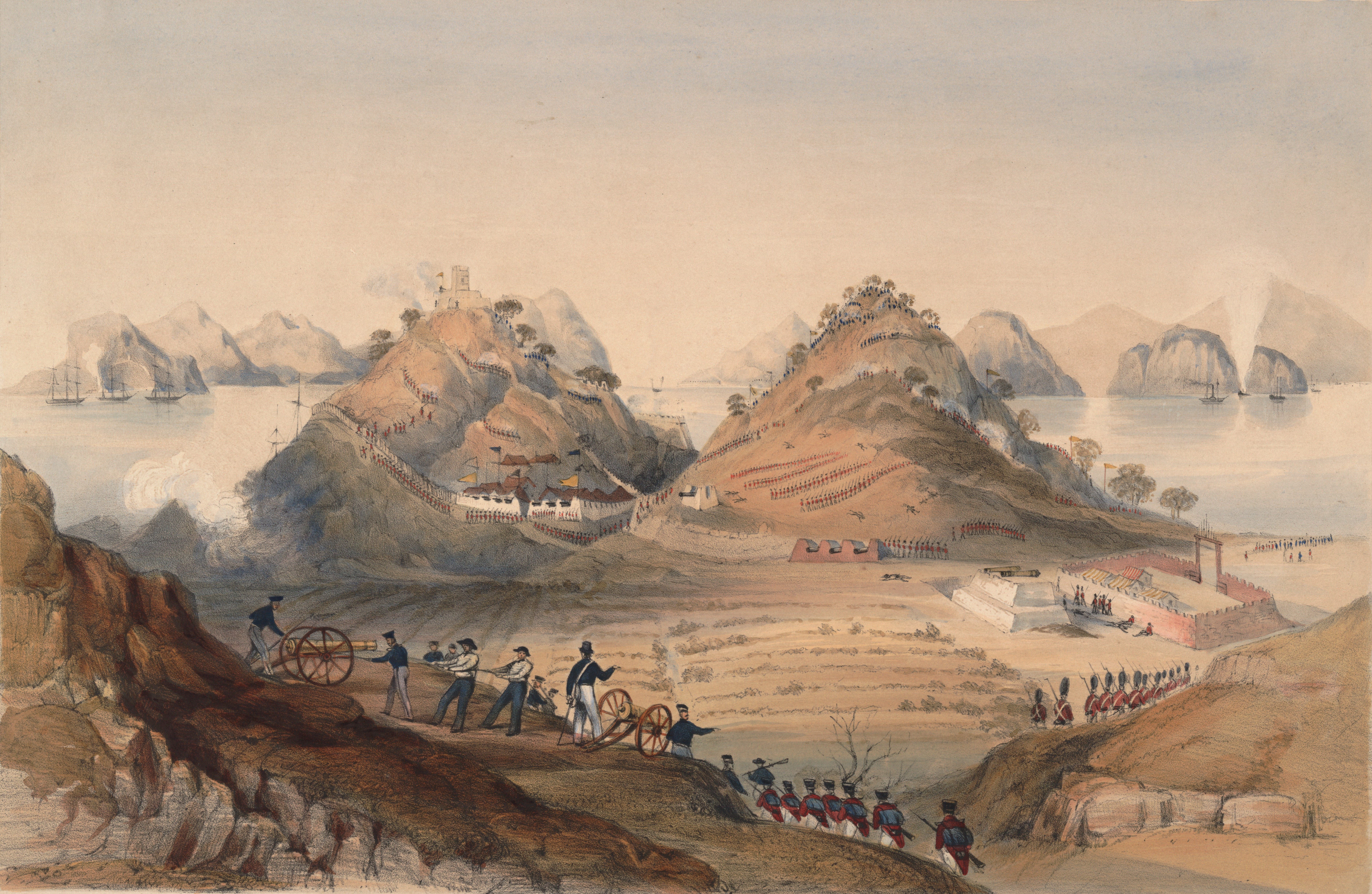 The storming of the forts and intrenchments of Chuenpee on 7 January 1841.